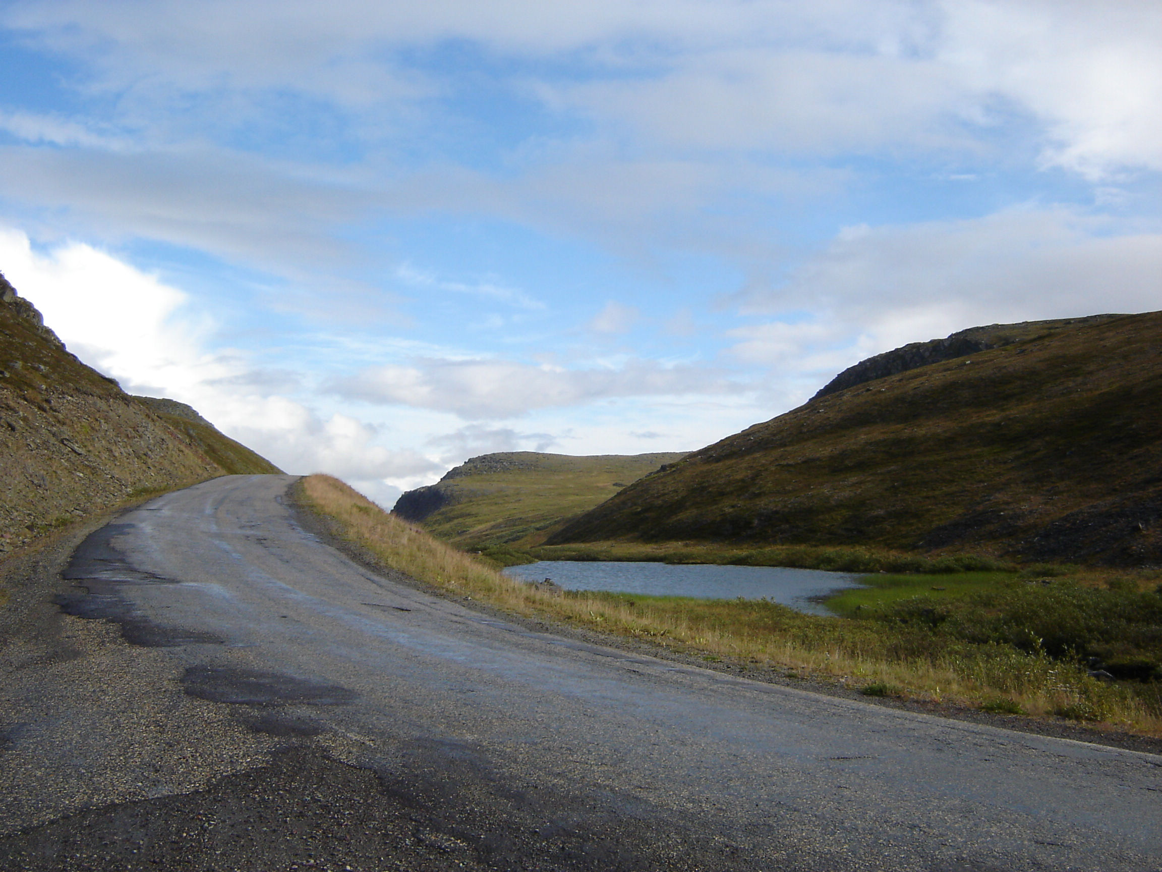 Ifjordfjellet, Tana municipality, Finnmark, Norway